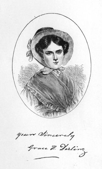 Grace Darling engraving and her signature